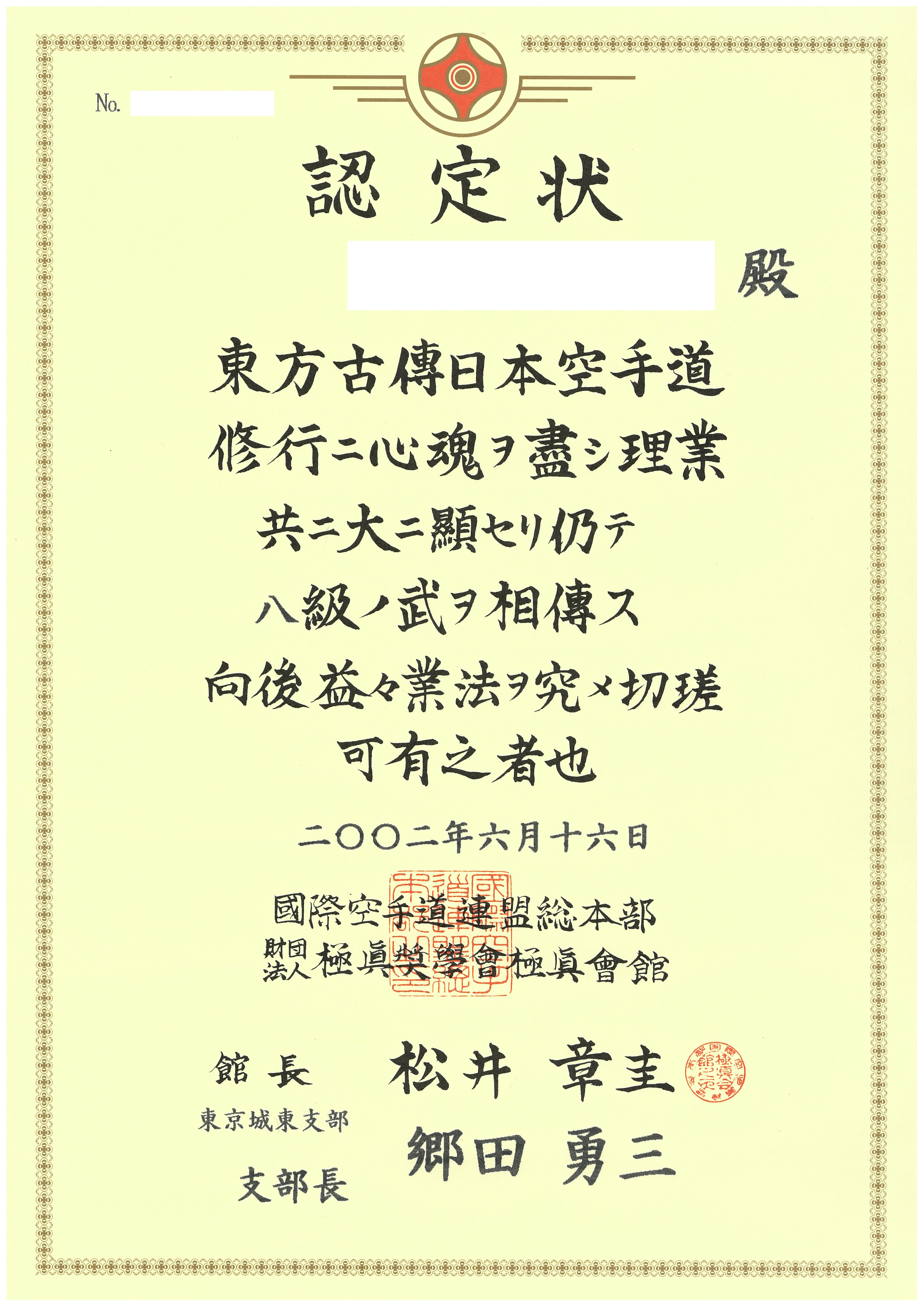 Diploma of 8th Kyu in Kyokushin Karate